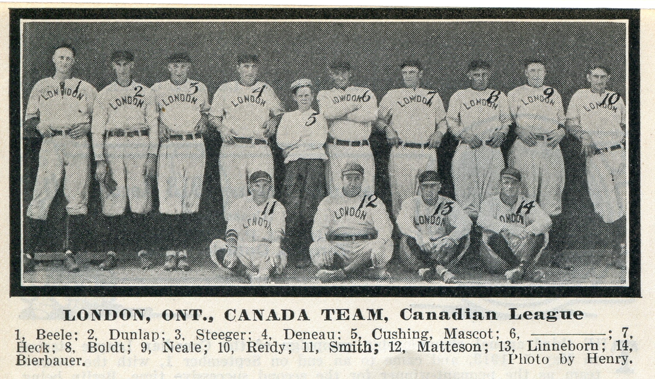 1913 was the only year the team was led by George Deneau (#4 in the picture)